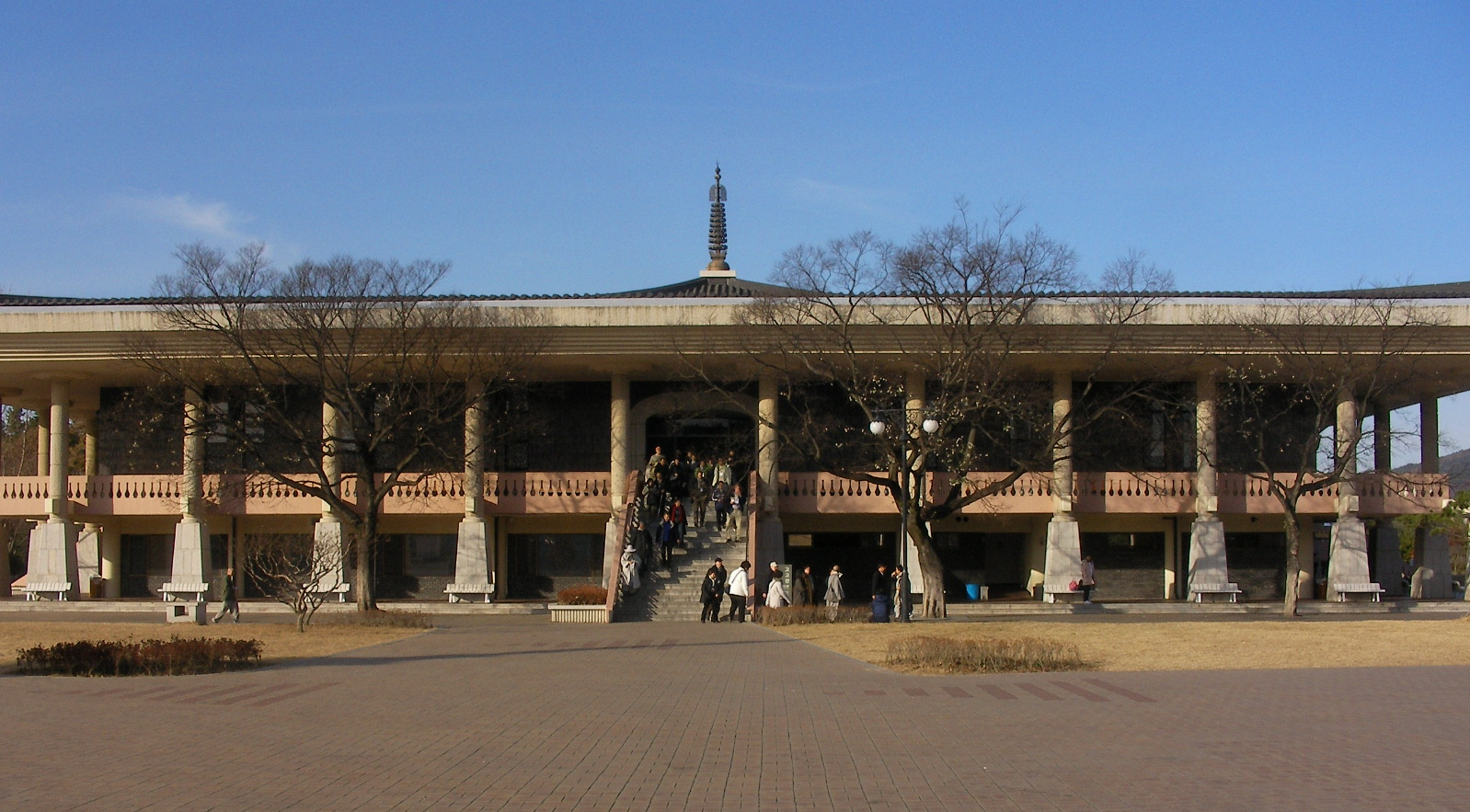 Gyeongju National Museum, Gyeongju, Gyeongsangnam-do, South Korea